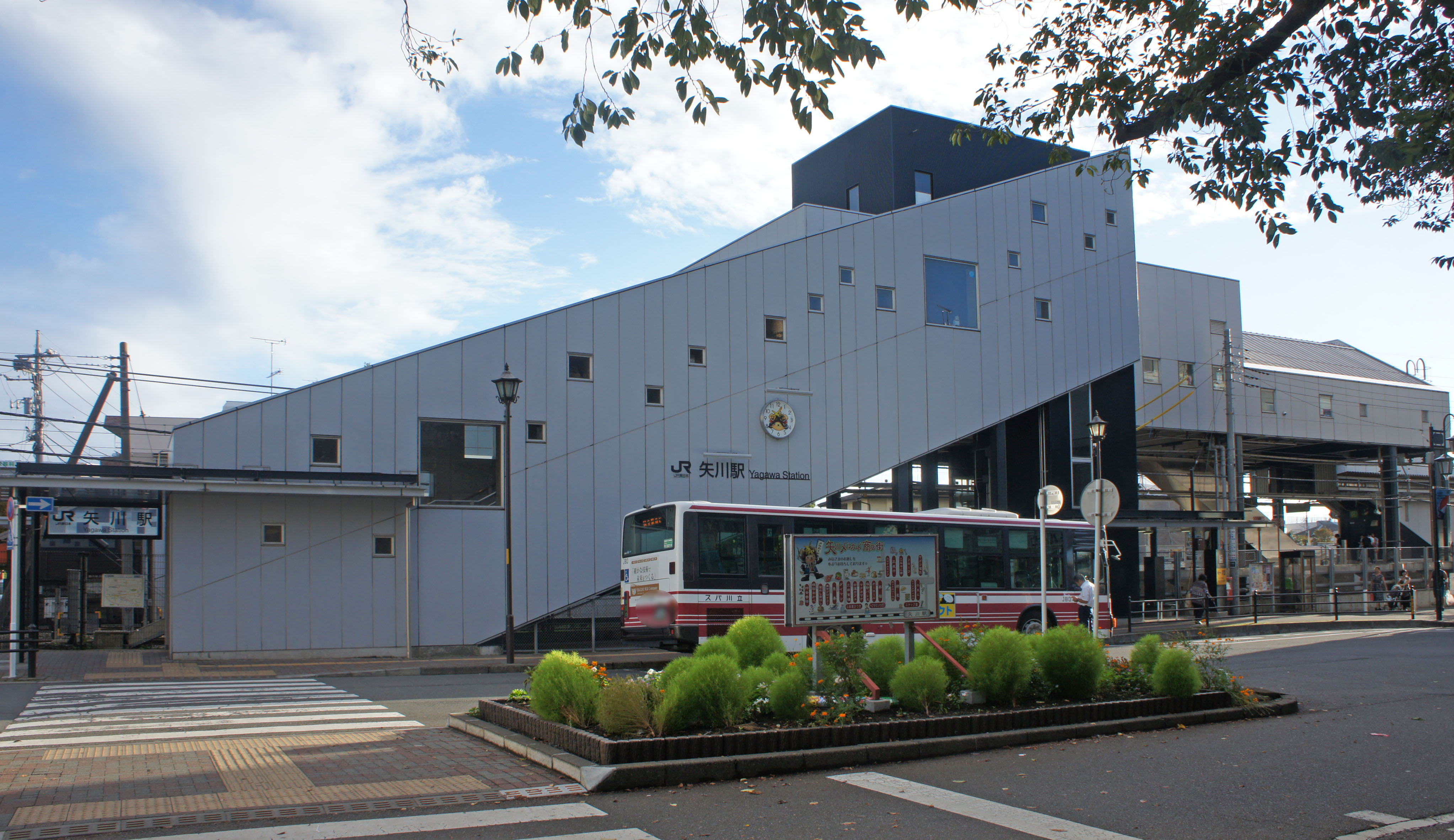 North Exit of JR Nambu-Line Yagawa Station